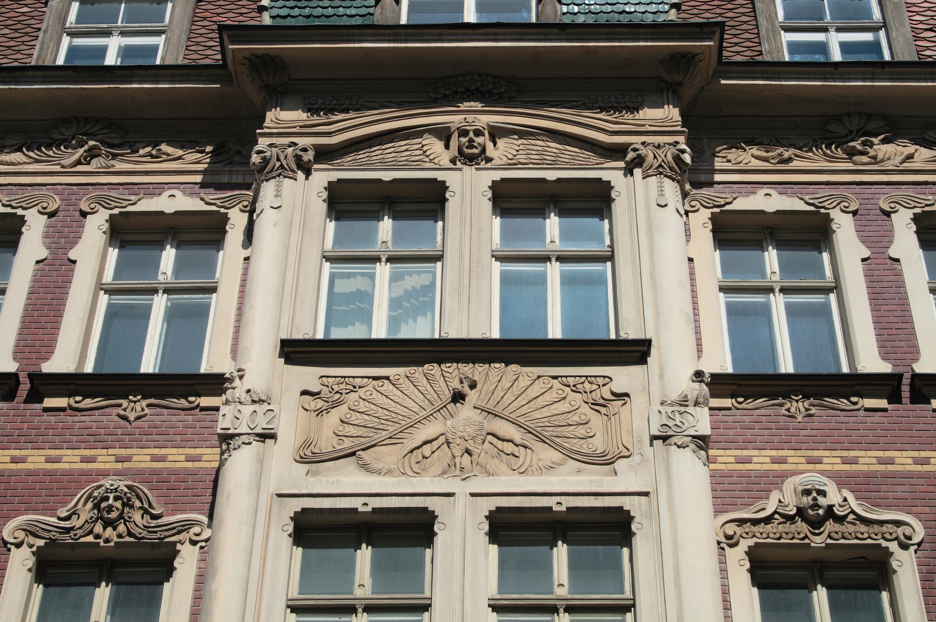 2, Smilšu Street in Riga, Latvia. House in Art Nouveau (1902) by Konstantīns Pēkšēns (1859–1928).